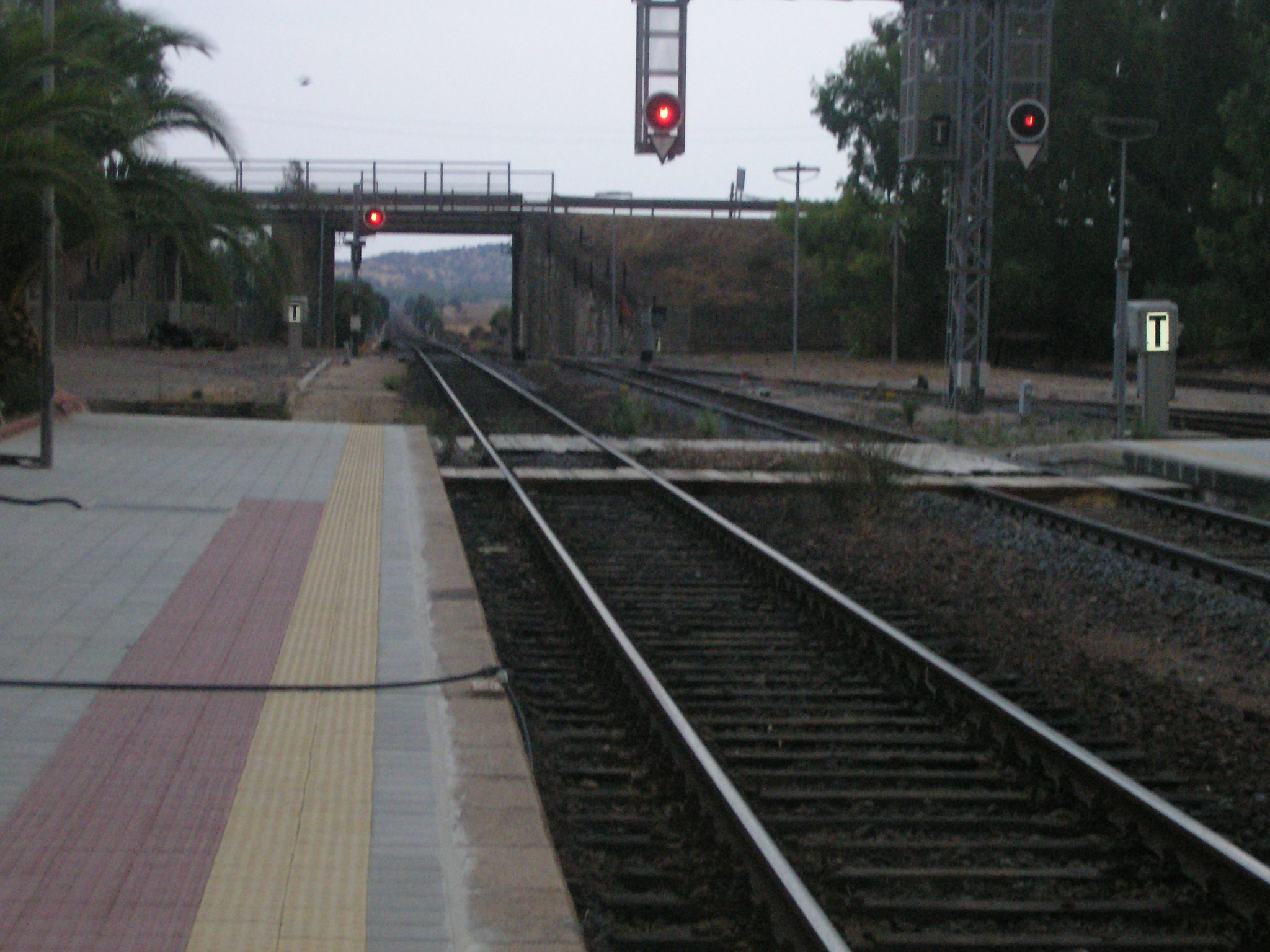 The Decimomannu-Iglesias railway in Sardinia, Italy, seen from the Siliqua station looking to Decimomannu